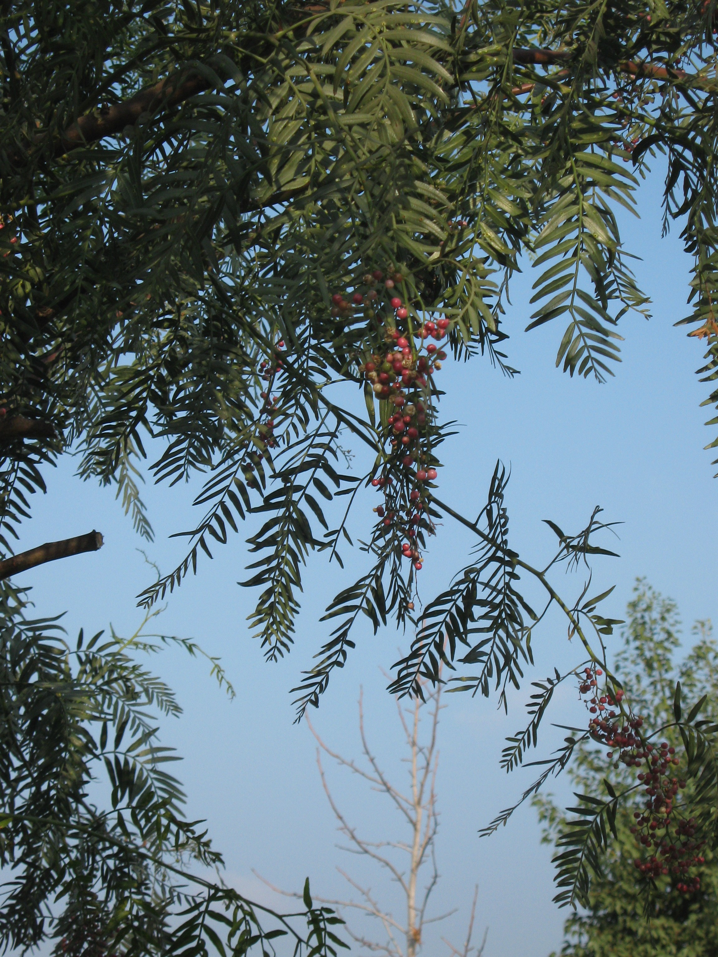 Schinus areira street ornamental, Larapinta, Lampa Chile